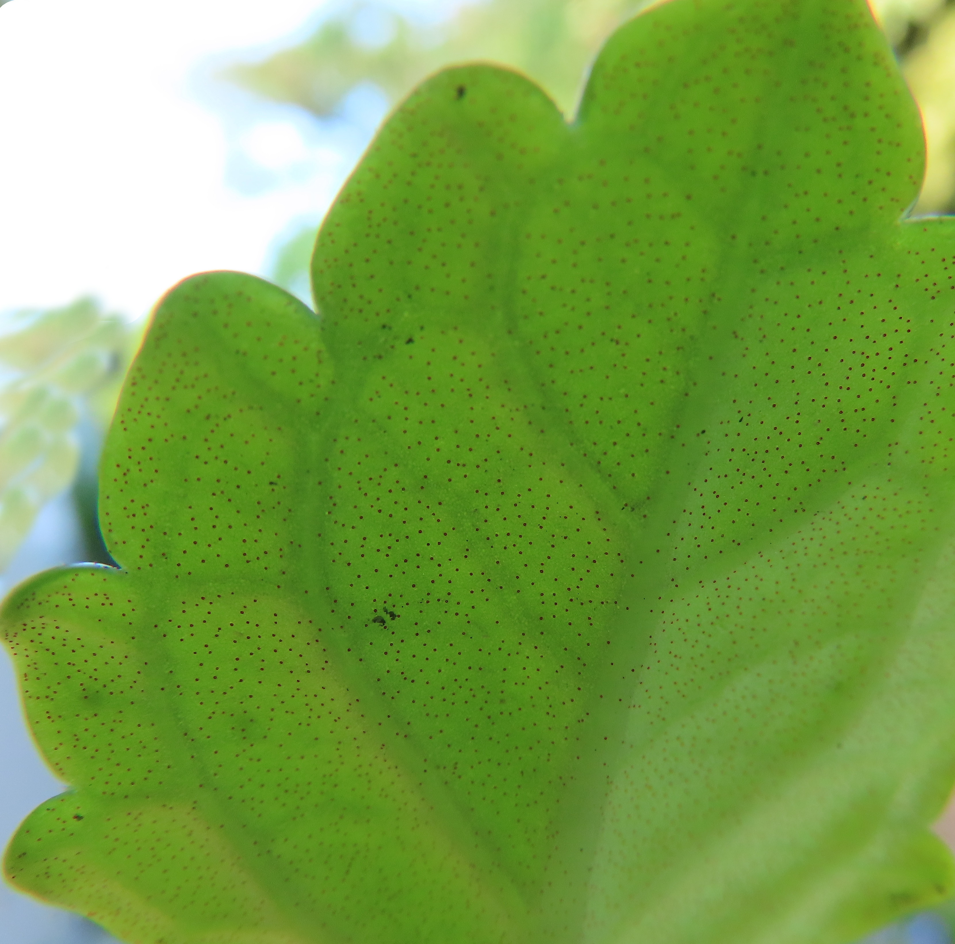 Punctate under-surface of unidentified Plectranthus leaf, marked with punctiform glands